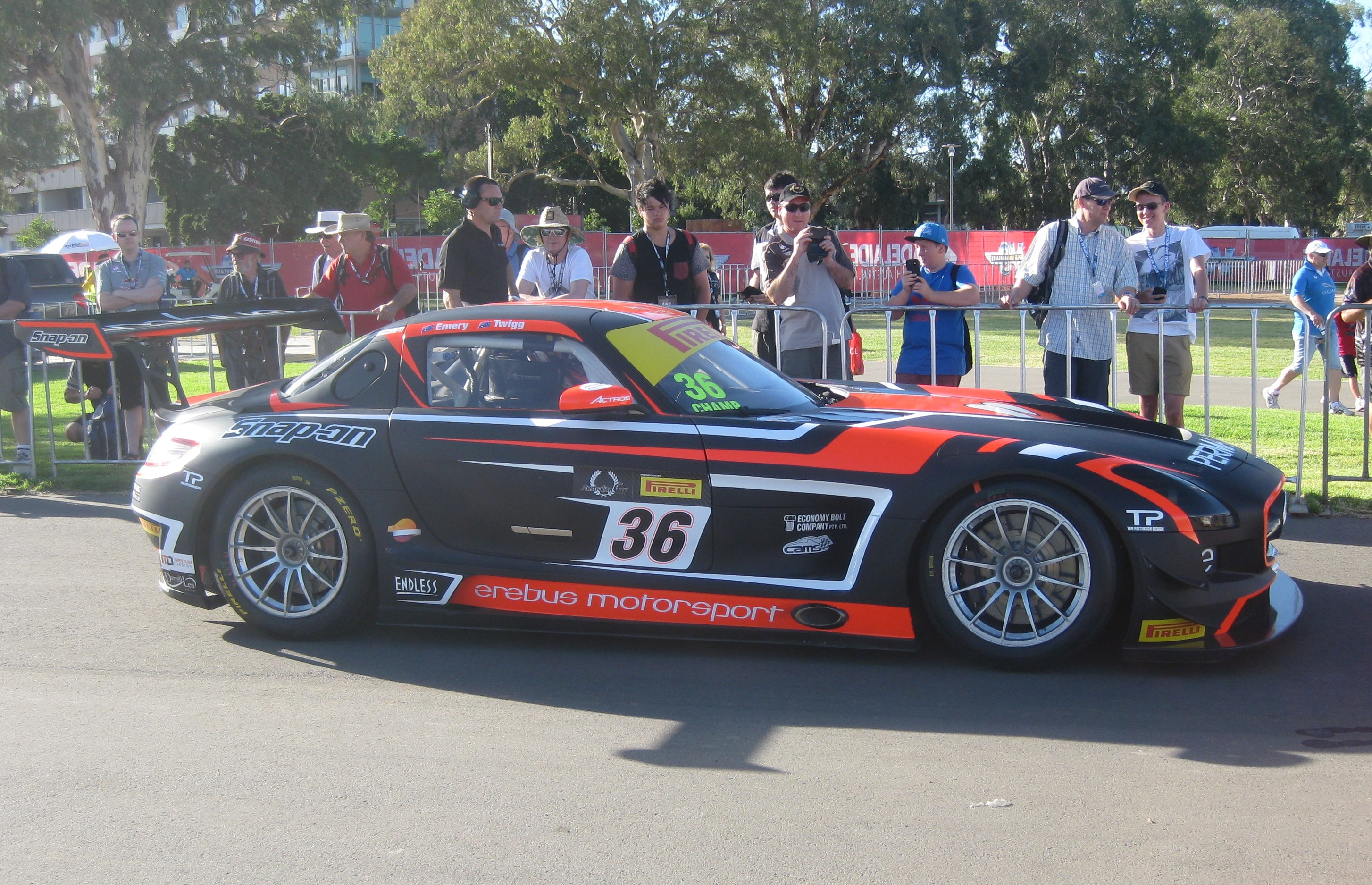 Mercedes Benz AMG SLS of Max Twigg & Geoff Emery at the opening round of the 2015 Australian GT Championship